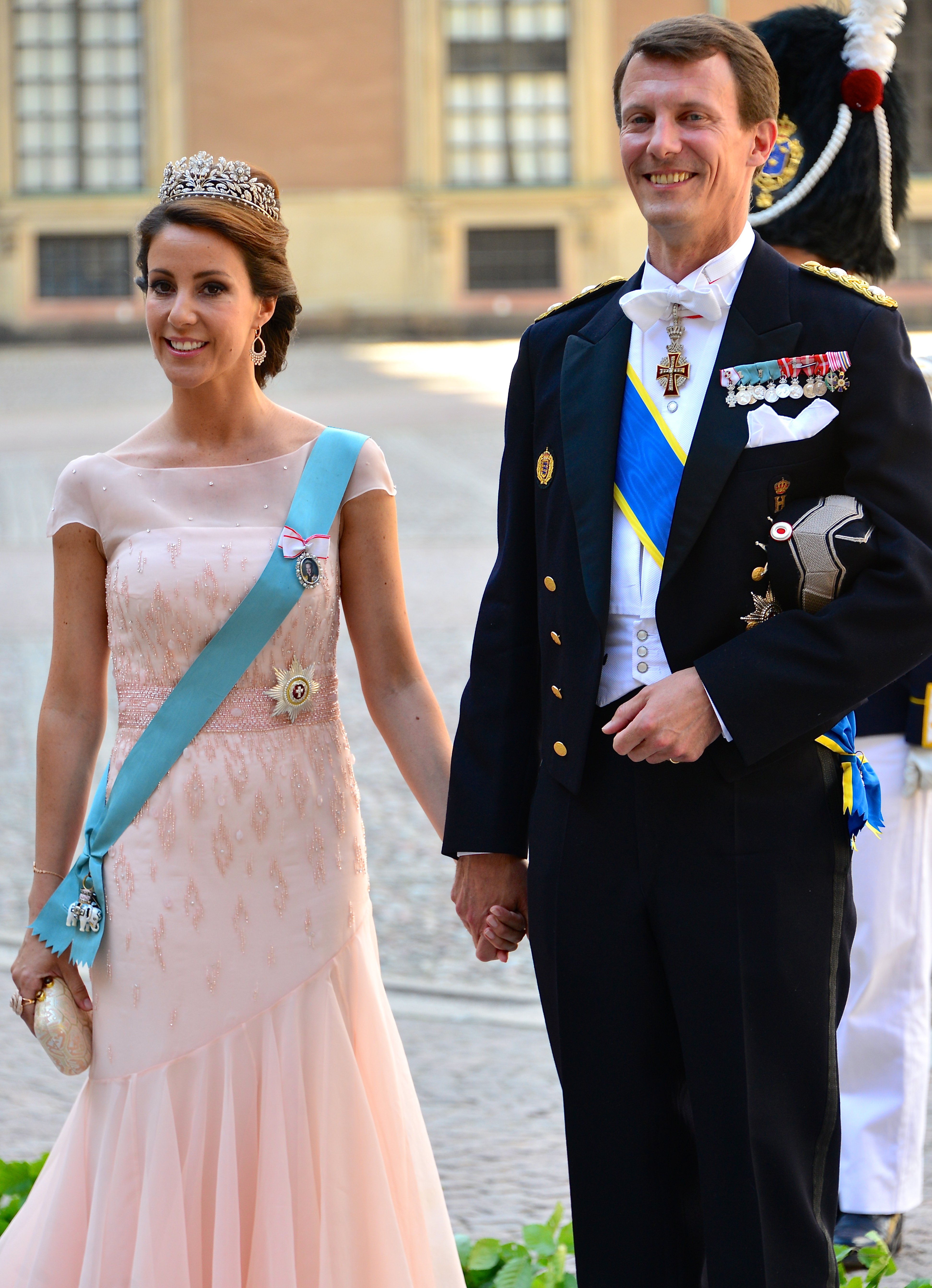 Prince Joachim and Princess Marie of Denmark on the way to the castle church at the Royal Palace in Stockholm before the wedding between Princess Madeleine and Christopher O'Neill June 8, 2013.